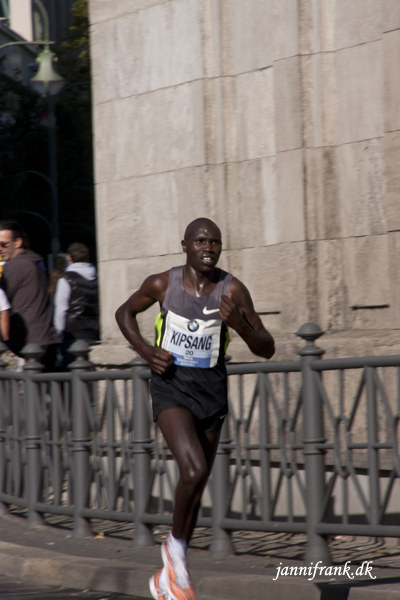 BMW Berlin Marathon 2012